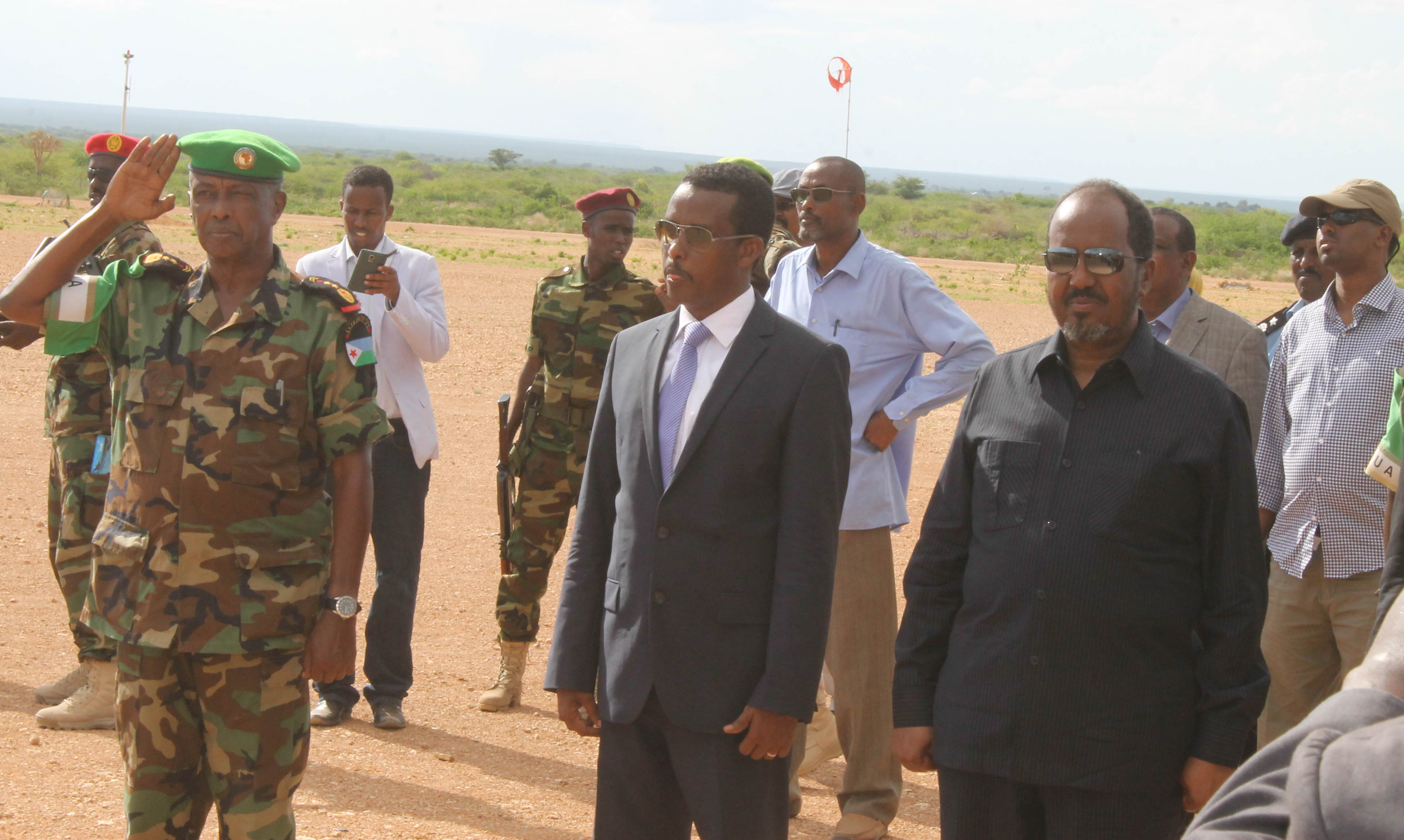 Somali President Hassan Sheik Mohamud with Hiran Governor Abdifatah take a guard of honour by AMISOM forces when the president arrived in Belet Weyne capital city of Hiran rgion on October 23rd, 2014. AMISOM Photo / Ismail Hassan